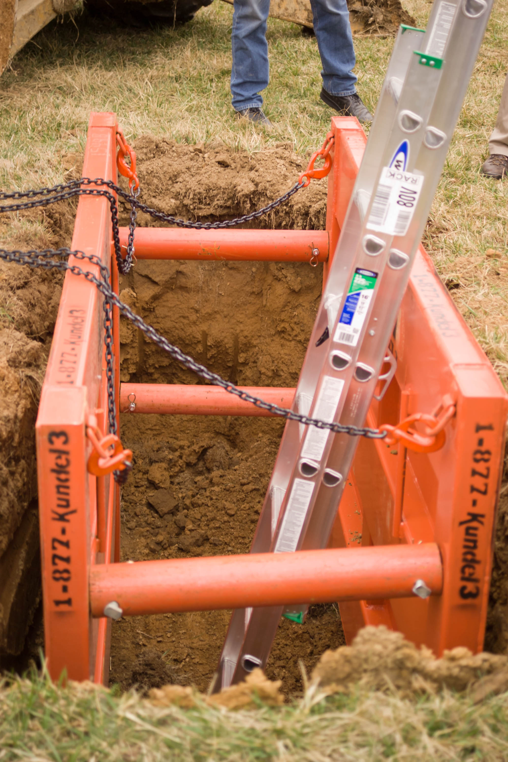 Image of the trench box in situ with chains still attached and the escape ladder in place